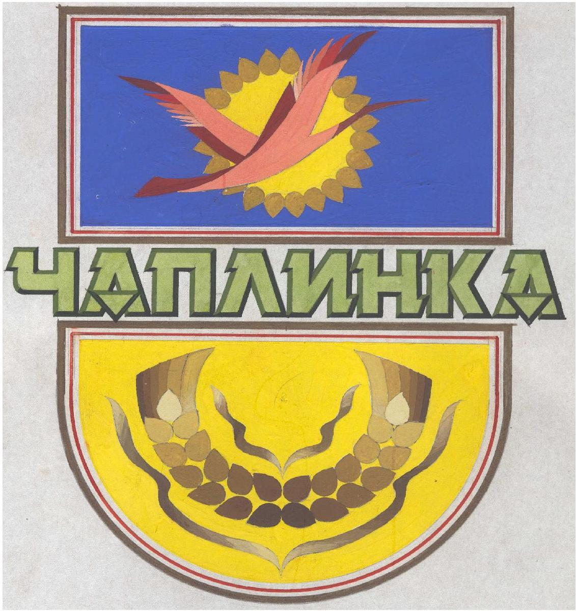 Coat of Arms of Chaplynka